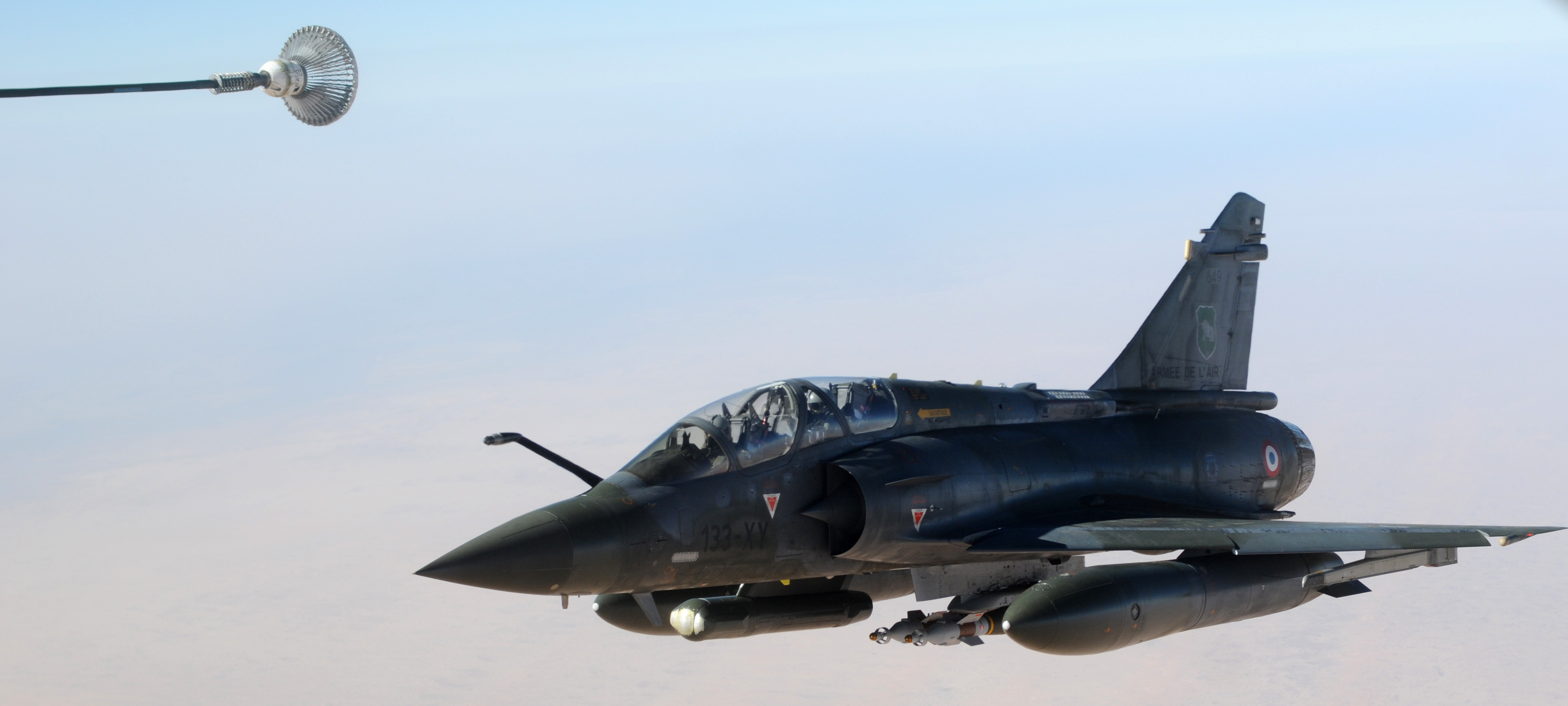 A French Mirage 2000D n°649 "3-XY", 3th Flight, Fighter squadron 3/3 "Ardennes", prepares to refuel from a U.S. Air Force KC-135 Stratotanker over Africa on Feb. 2, 2013. Tanker crews from the 100th Air Refueling Wing, RAF Mildenhall, England, began conducting refueling missions in support of French operations in Mali from a deployed location in southwest Europe on Jan. 27. (U.S. Air Force photo by Staff Sgt. Austin M. May) Read more